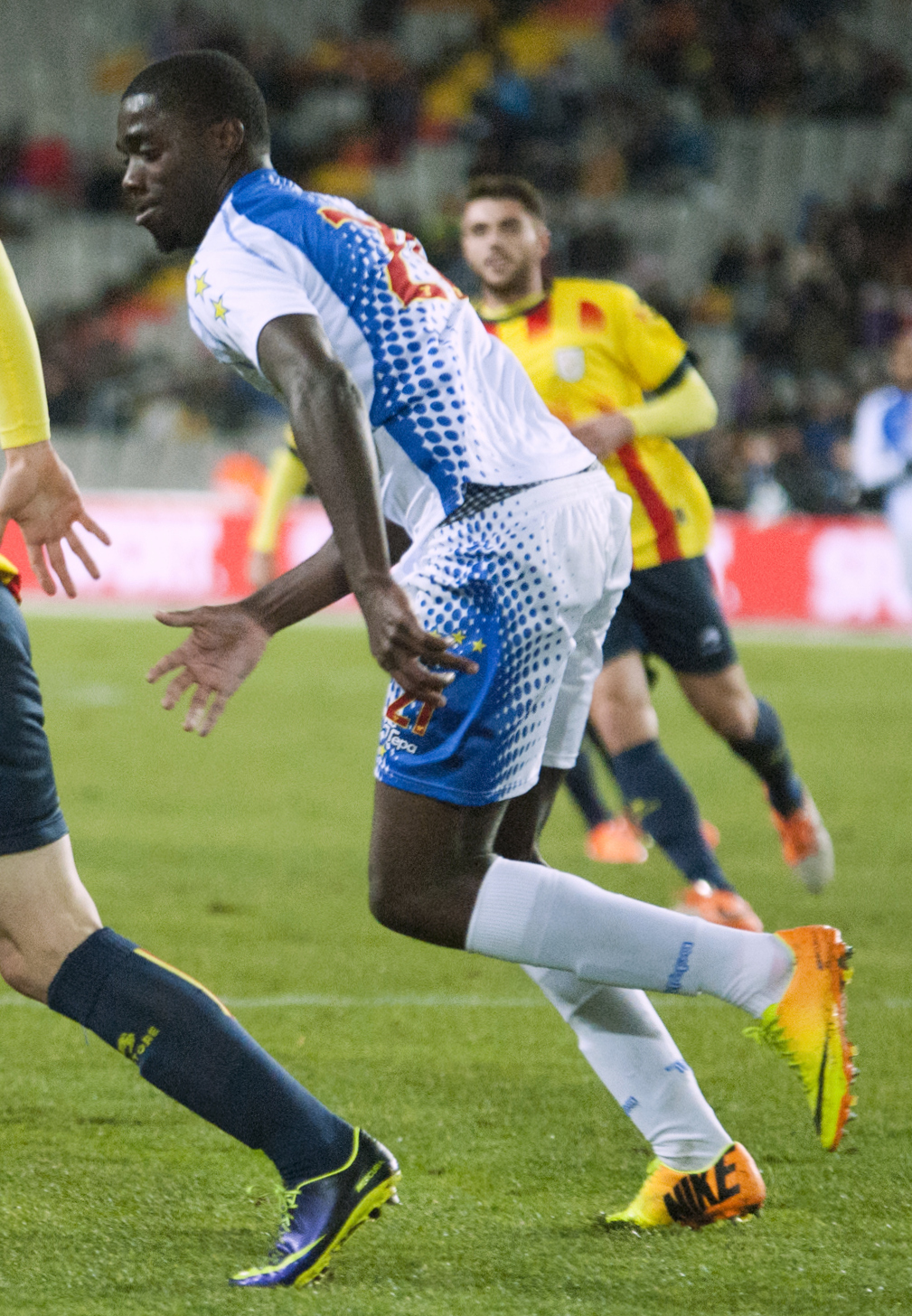 Cape Verdean international football player Jorge Djaniny Tavares Semedo during friendly match Catalonia vs. Cape Verde